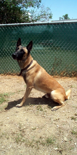 Python, JTF explosive detection/patrol military working dog, in the yard of his current facility.